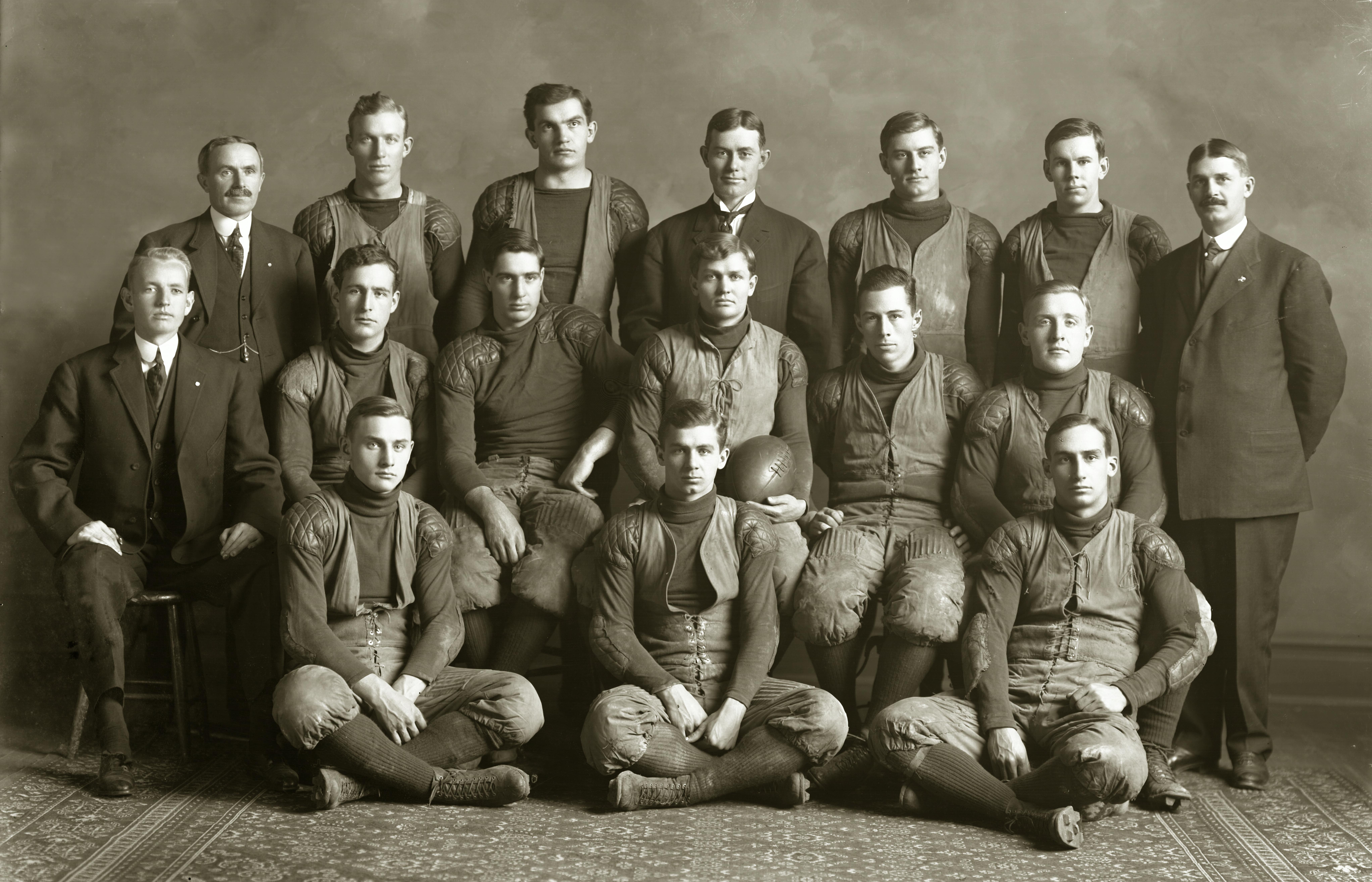 1907 University of Michigan football teamFront row: Dave Allerdice, William Wasmund, Mason RumneyMiddle row: Charles Thornburg, William Casey, John Loell, Paul Magoffin, Harry Hammond, Walter GrahamBack row: Keene Fitzpatrick, Walter Rheinschild, Germany Schultz, Fielding H. Yost, William Embs, James Watkins, Charles A. Baird